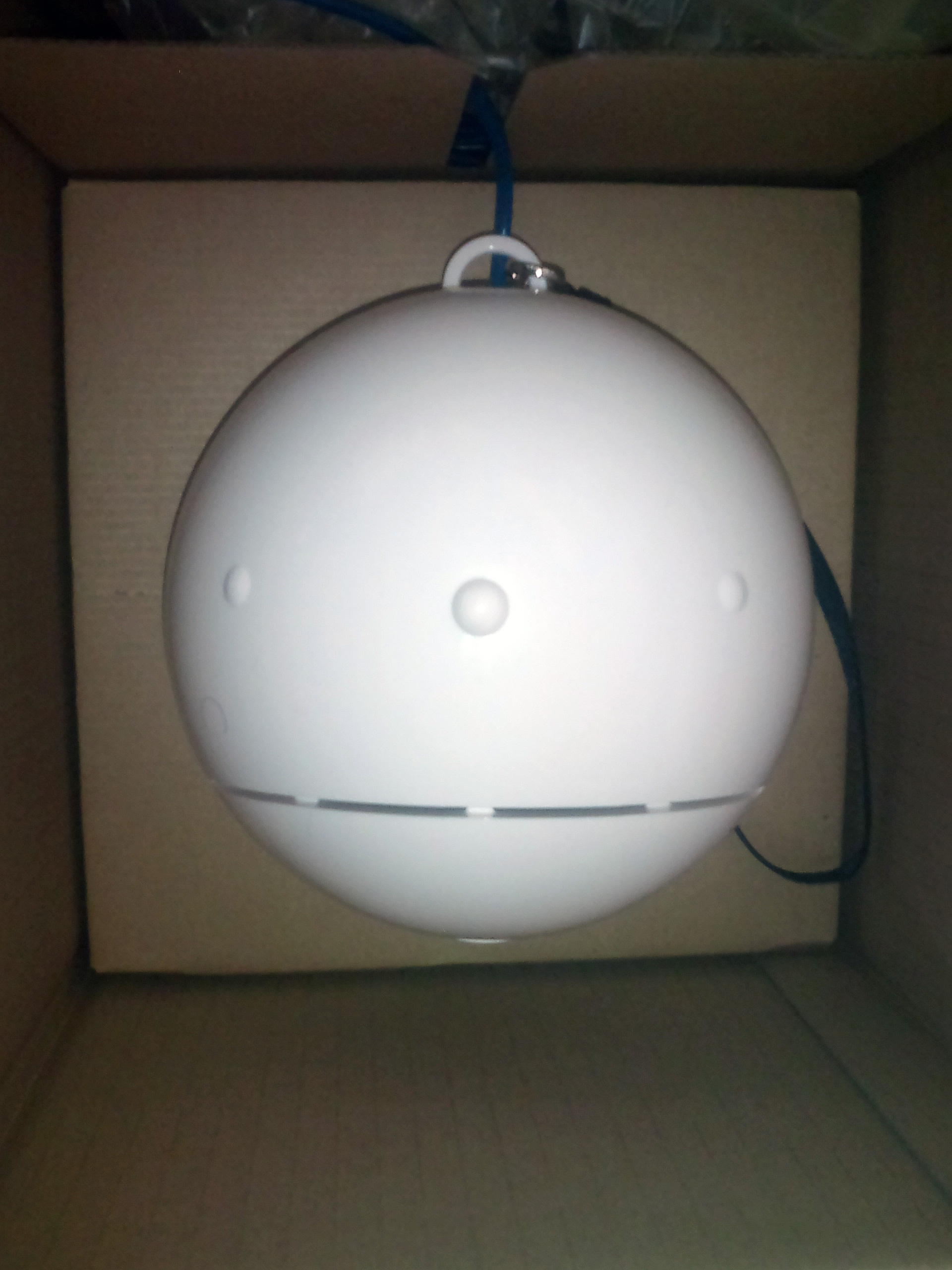 Pollen observation machine for WEATHERNEWS offer "Pollen robot No.5"(2010 model) (The one which has reached photographer's home.)